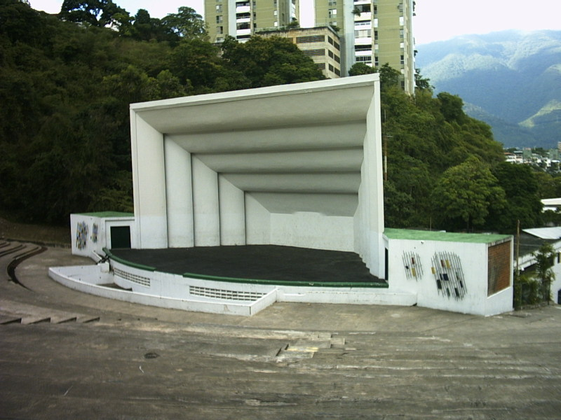 I´m the author of this photo, i take it in September 2006. Guillermo Ramos Flamerich